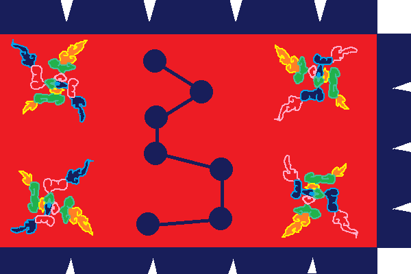 In Joseon dynasty of Korea, the admiral ship of navy force can call other ships for combat. Choyogi is the flag the admiral ship uses to call other ships. (This file is traced-out the Choyogi owned at War Memorial of Korea)